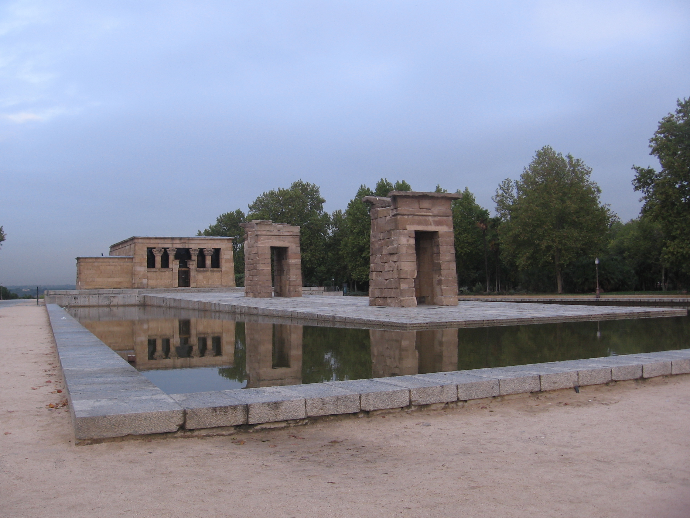 Temple of Debod in Madrid.